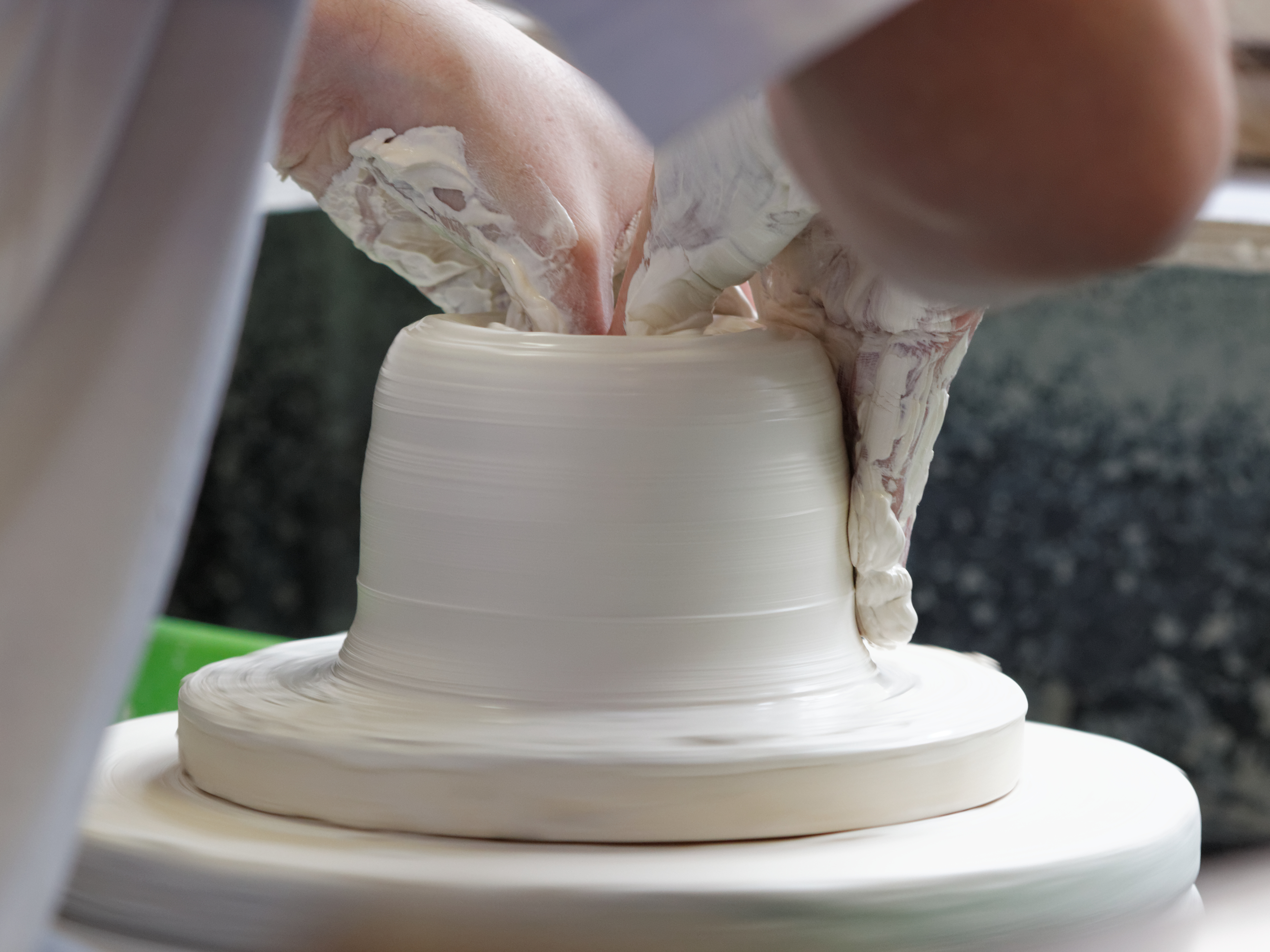 Throwing of a litron cup at the Grand Atelier of the manufacture nationale de Sèvres.